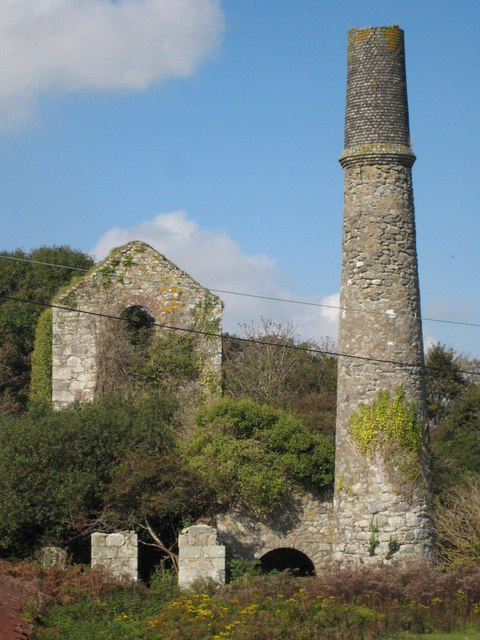 Engine house at Tresowes Green More information here